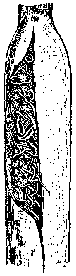 Sub-caudal pouch of a pipe-fish (Syngnathus acus) with the young ready to leave the pouch. One side of the membrane of the pouch is pushed aside to admit of a view of its interior. (Natural size.)